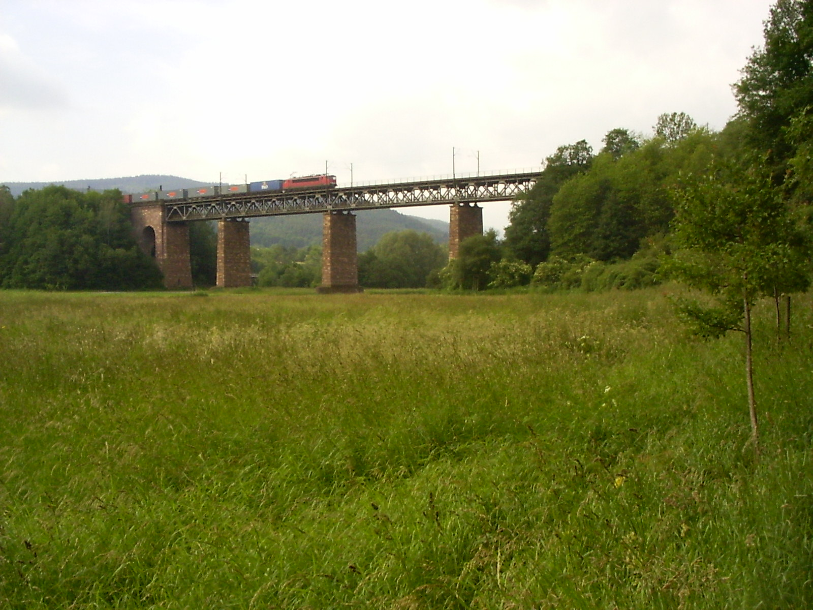 Bridge over the Werra in the railway line Bebra to Goettingen